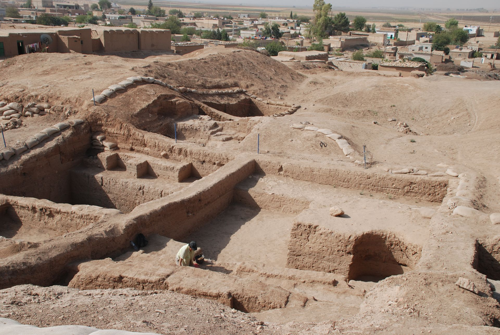 Tell Halaf, Syria, south part near former hilani (west palace)